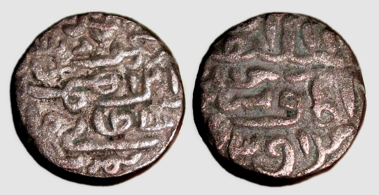 Coin of Muhammad Shah Dated AH 863